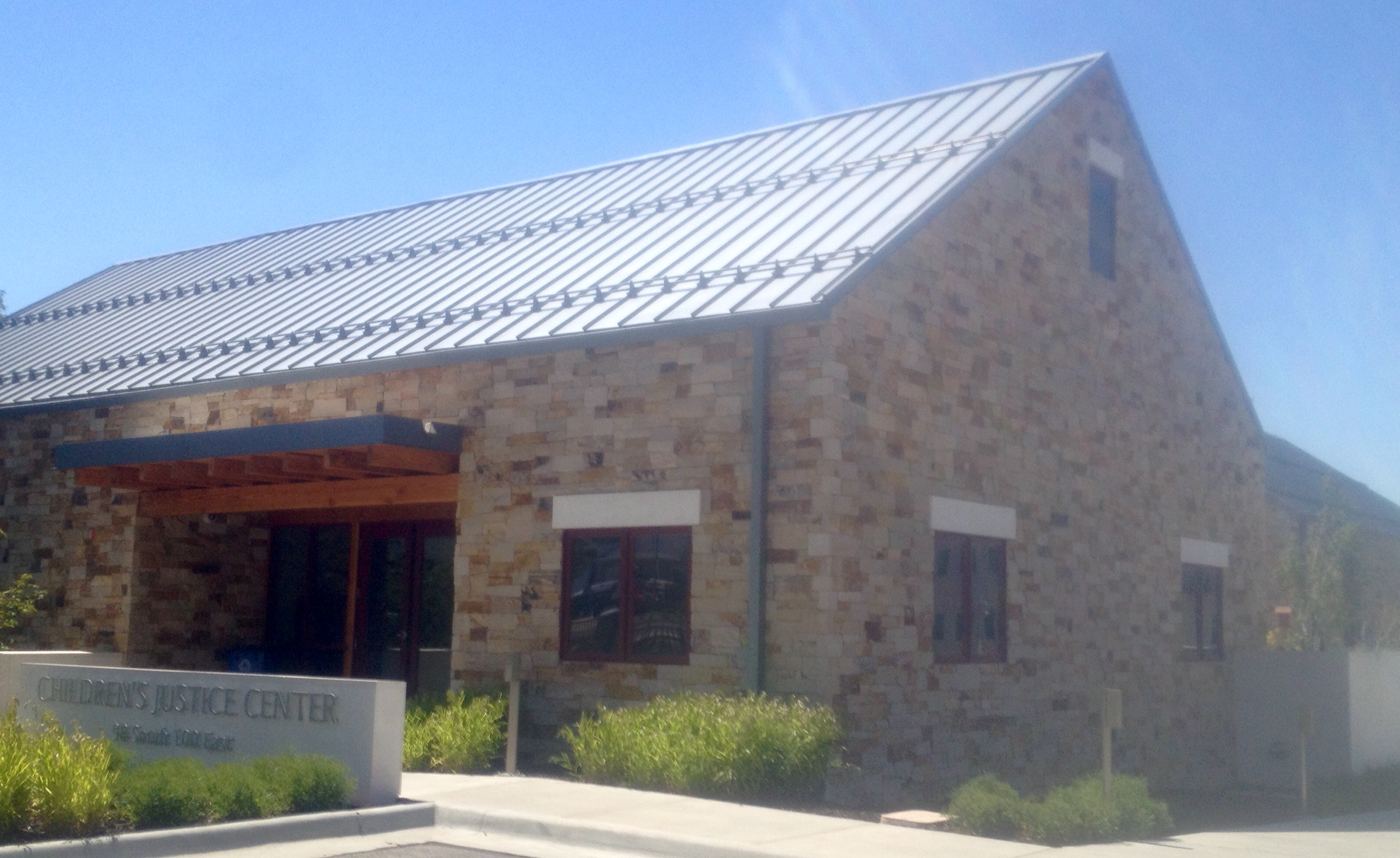 Children's Justice Center in Farmington, Utah.